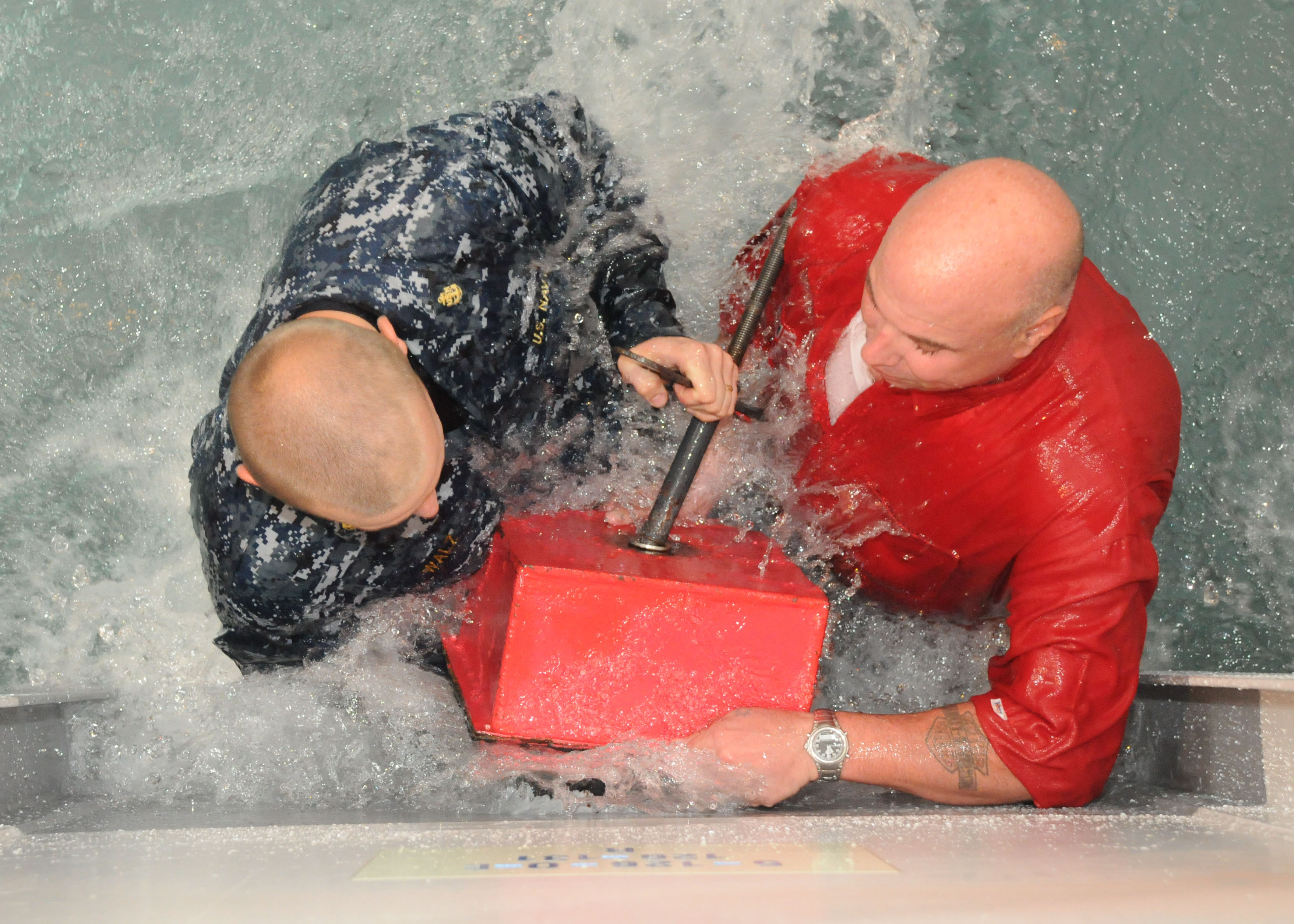 YOKOSUKA, Japan (Aug. 12, 2010) Chief Damage Controlman Matt Walz, left, and Master Chief Damage Controlman David Singer demonstrate how to apply a box patch to a ruptured bulkhead to Japanese college students in a training space at the Yokosuka Fire Fighting and Damage Control Training Facility during a U.S. Embassy Youth Outreach Program. The program is intended to give Japanese college students a better understanding of the U.S. Navy's role in the U.S. and Japan alliance. (U.S. Navy photo by Mass Communication Specialist 3rd Class Dominique Pineiro/Released)